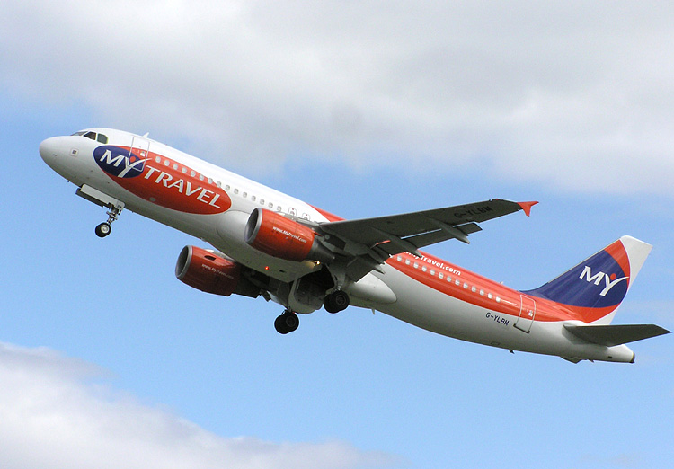 MyTravel Airbus A320-200 (G-YLBM) taking off from Bristol Airport, Bristol, England. Taken by Adrian Pingstone in August 2004 and released to the public domain.